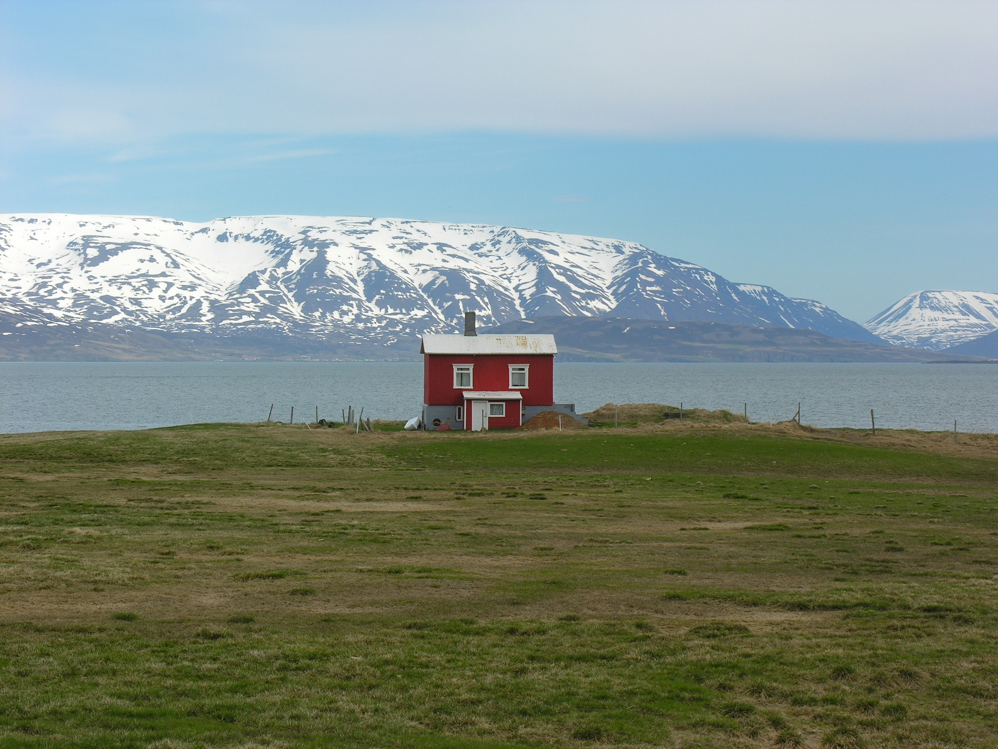 Iceland, along road 82